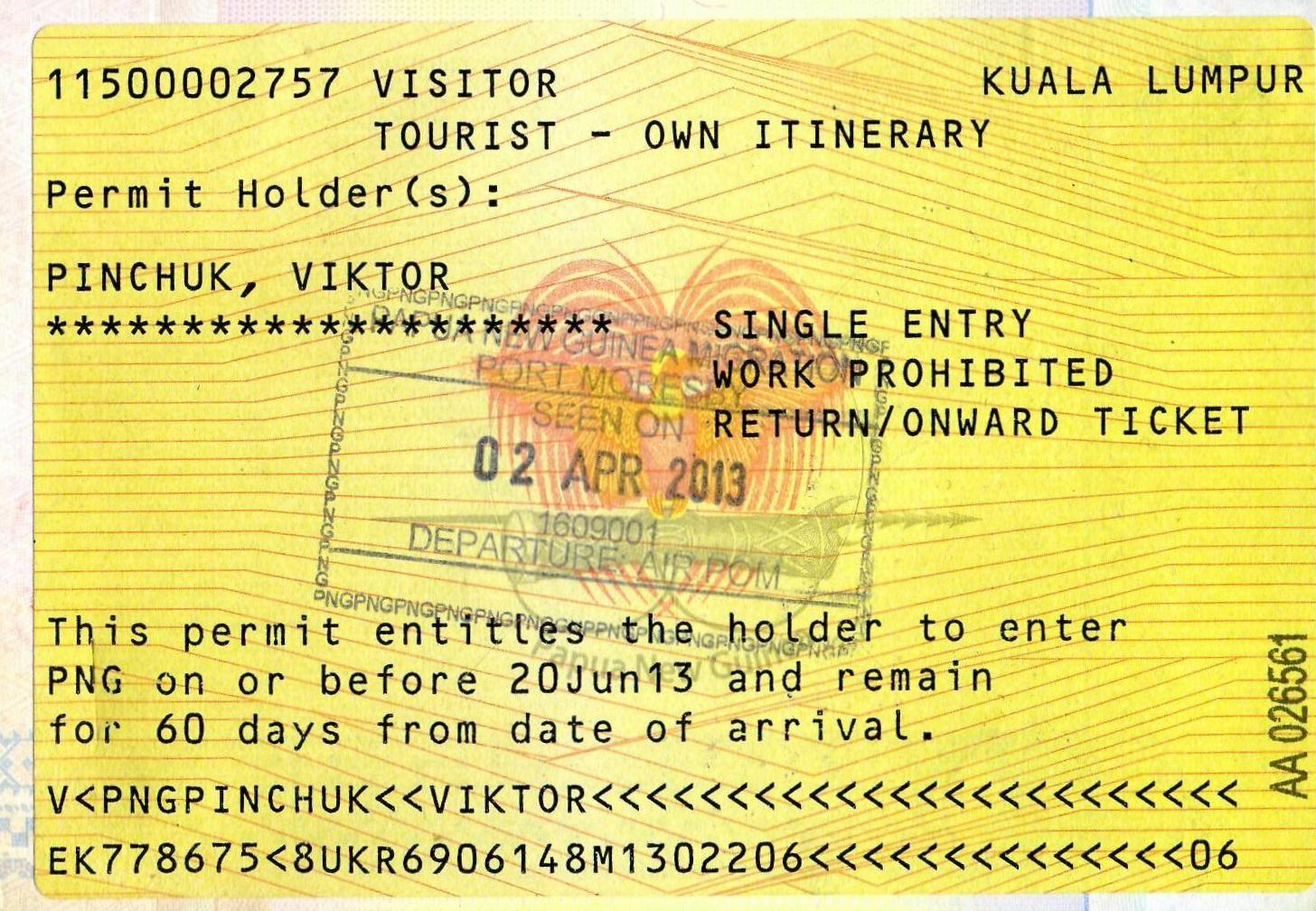 Papua New Guinea Visa